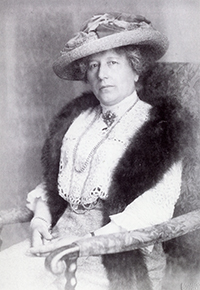 Margarethe Hormuth-Kallmorgen 1913, City Archives Karlsruhe